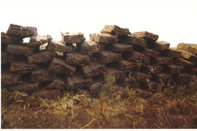 Drying the peats We are one of the few families who still cut peat in our village.It burns with amazing heat in our multi-fuel stove.